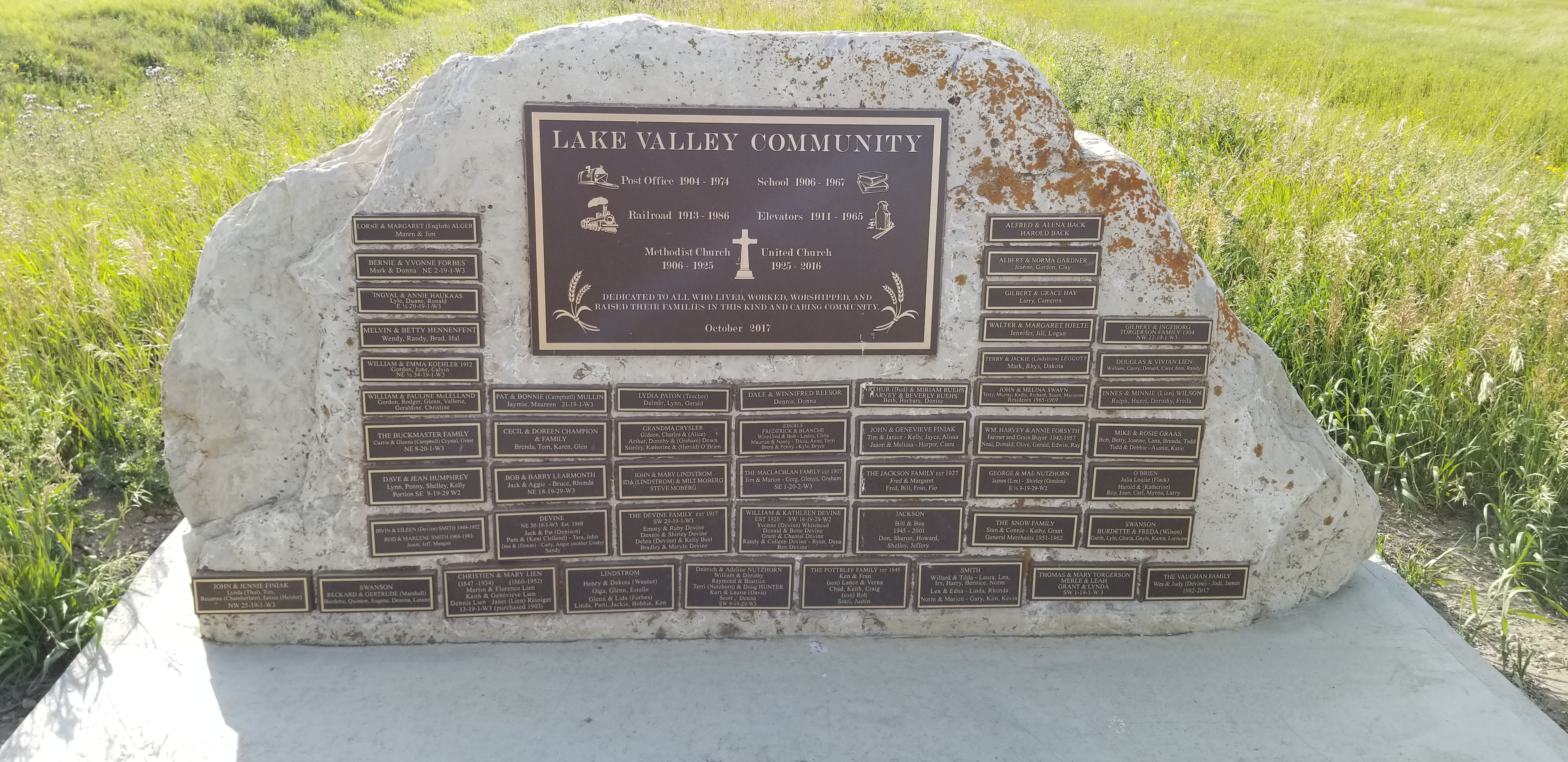 Lake valley plaque found on the old rail line